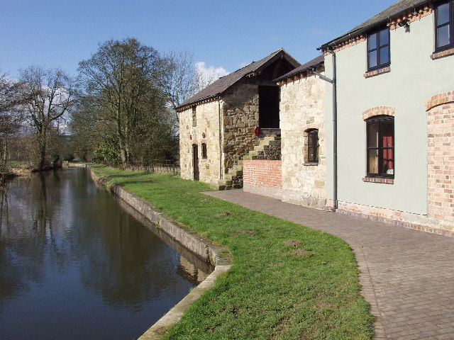 Llangollen Canal at St. Martins Moor. A great piece of canal side refurbishment. The banksman's cottage and outhouses have all been refurbished and tidied up.